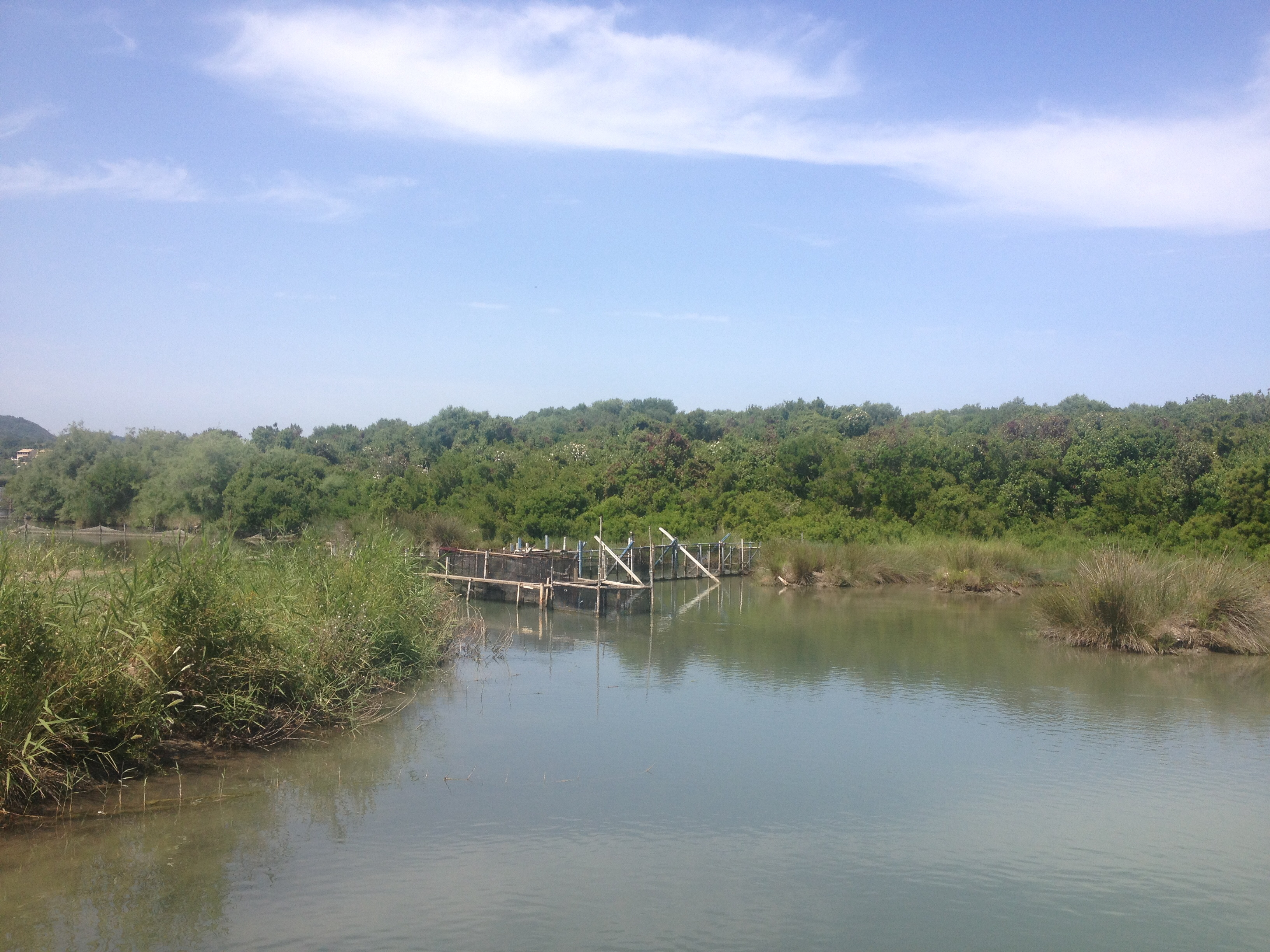 The outlet of Lake Antinioti, Corfu, Greece, into the Ionian Sea. Photograph taken from bridge near Agios Spyridon beach.